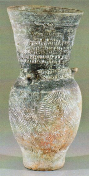 Thai vessel, early Ban Chiang, 2100 - 900 BCE, earthrnware, Honolulu Academy of Arts